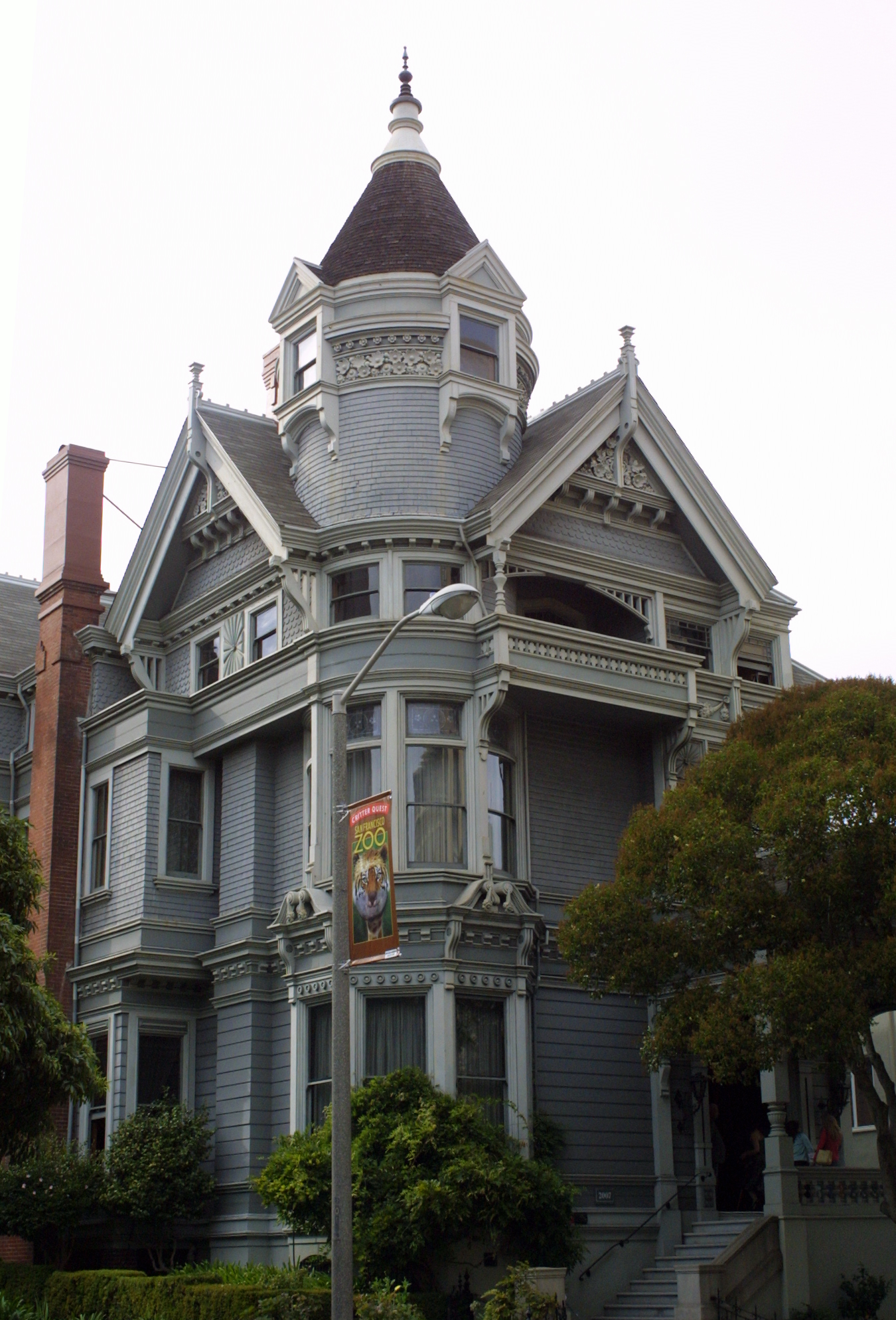 Haas-Lilienthal House, 2007 Franklin Street, San Francisco, CA